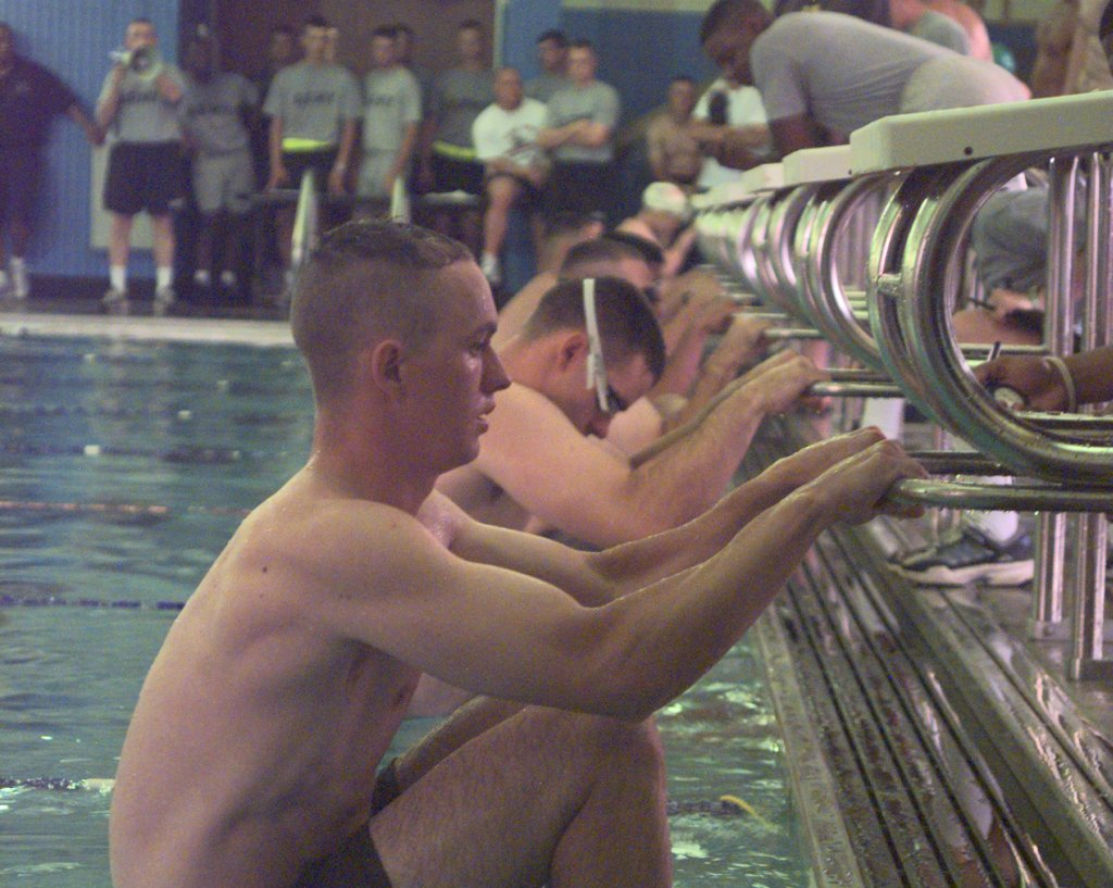 backstroke start, a number of male swimmers waiting at the wall for the signal